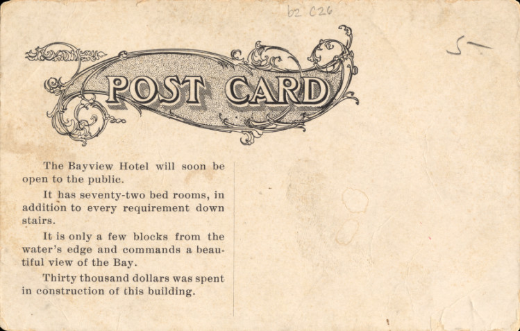 Bay-View Hotel at Aransas Pass, TX (back of postcard)